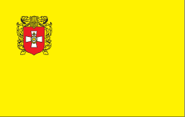 Flag of Ostroh raion